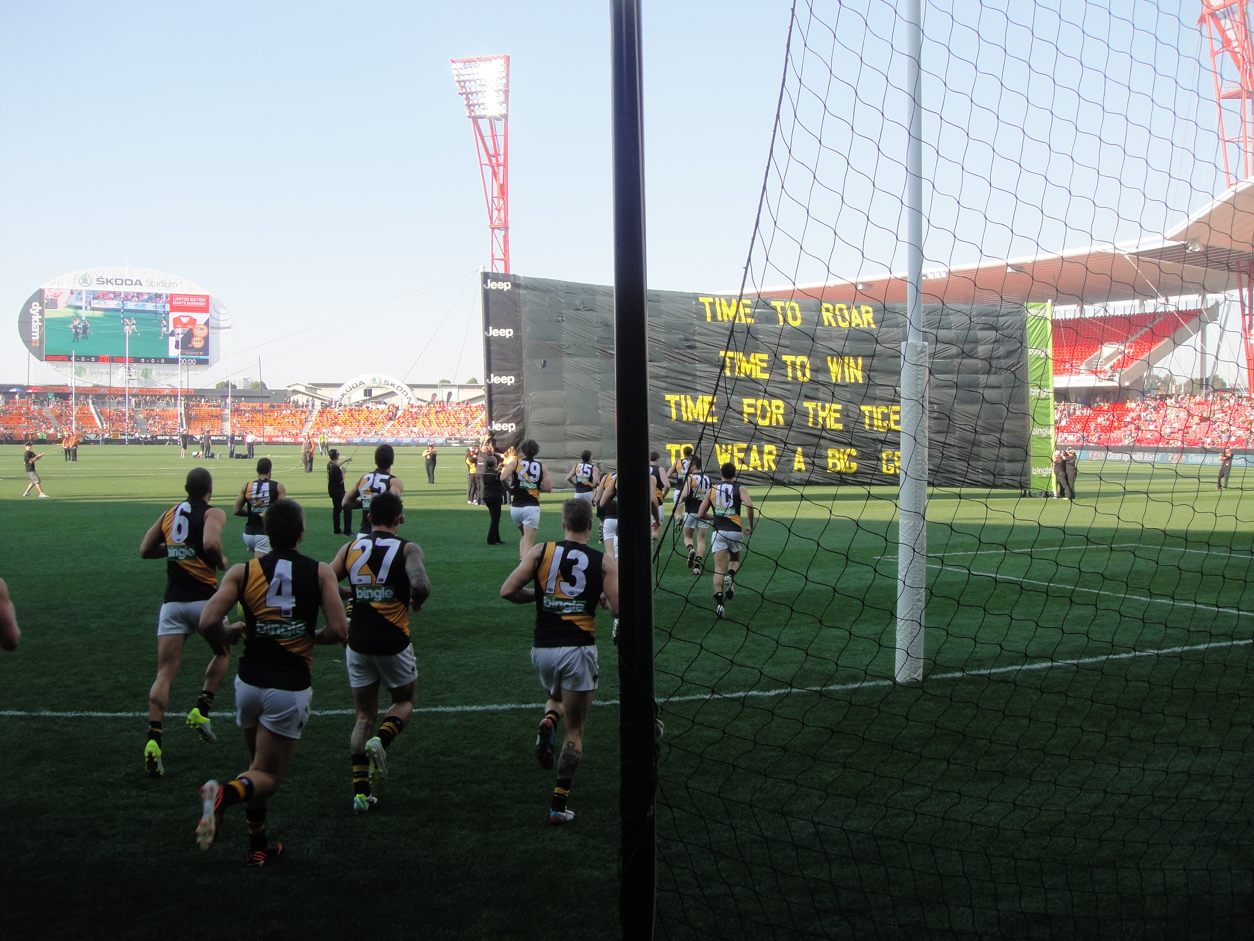 Richmond Tigers players break the banner before an AFL match in 2013.